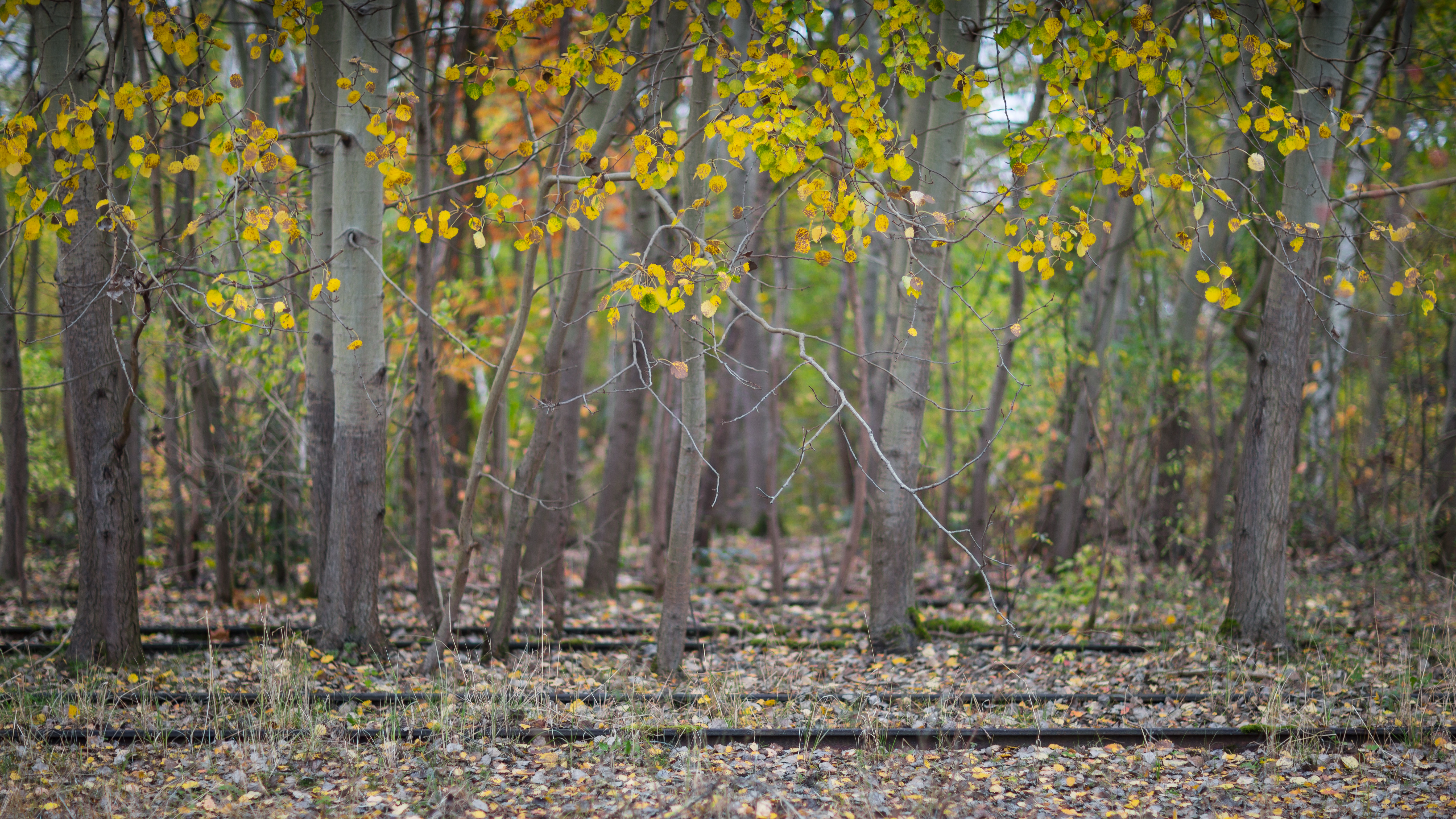 Nature park "Schoeneberg-Suedgelaende" located at the site of the former railroad yard in Tempelhof, Berlin, Germany.